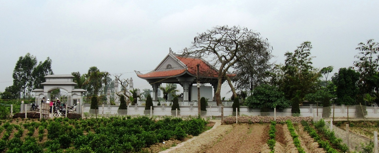 View on the Luong Quy Chinh grave in Hồng Việt commune, Đông Hưng district, Thai Binh province, Vietnam